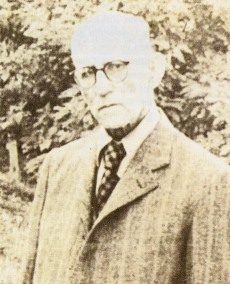 Avram Galantı (1879-1961)